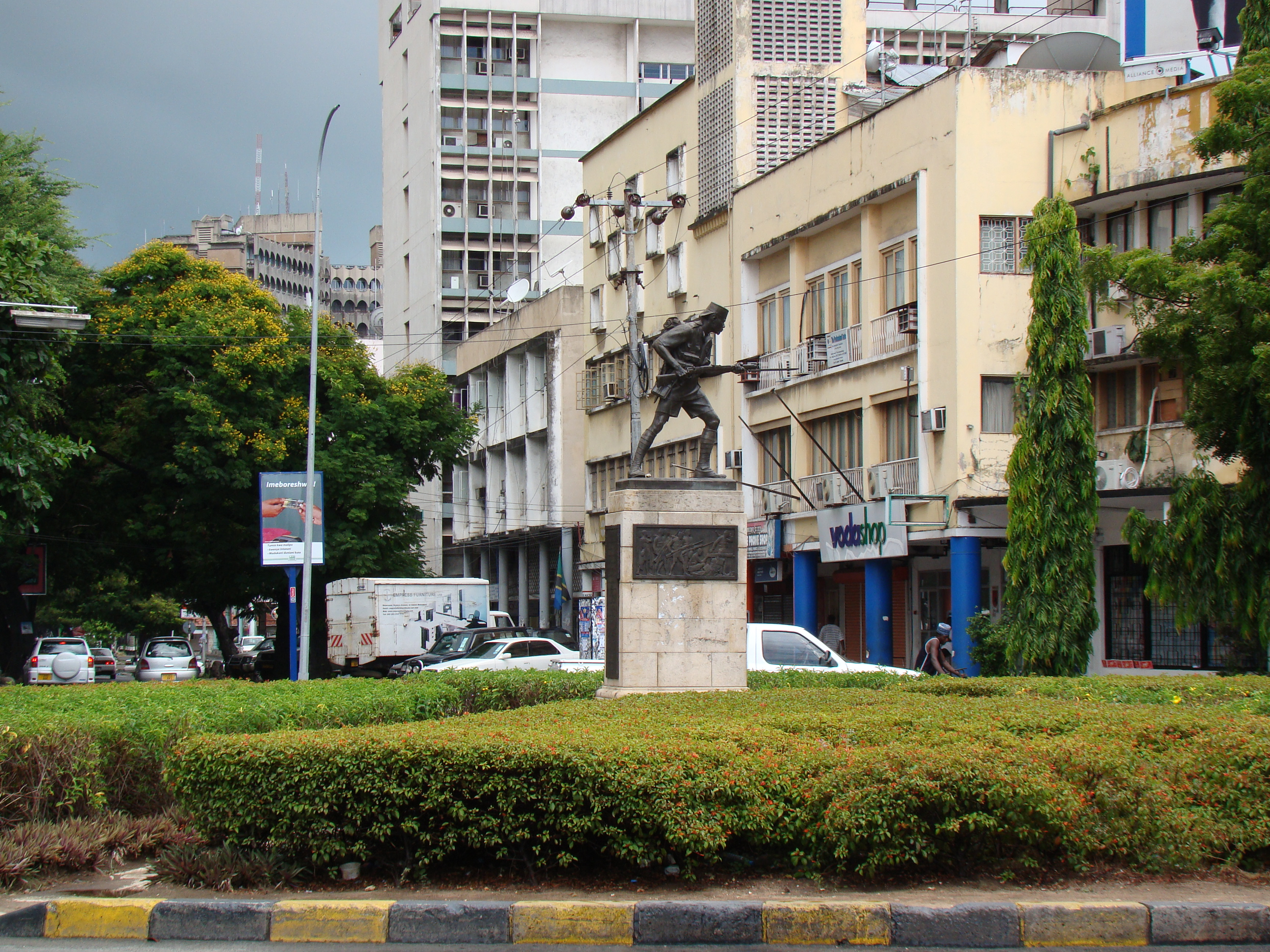 Tanzania, Dar es Salaam. Askari monument, Dar es Salaam.